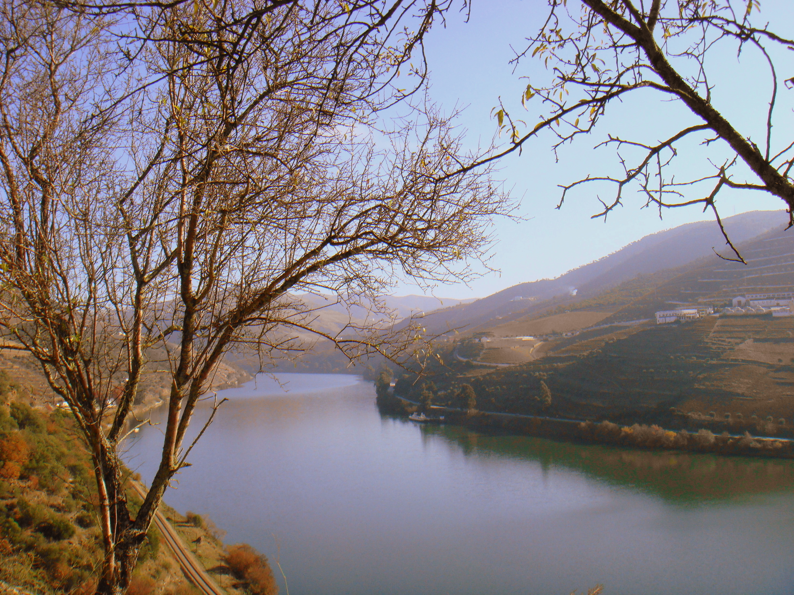 Douro Natural Park, Portugal.